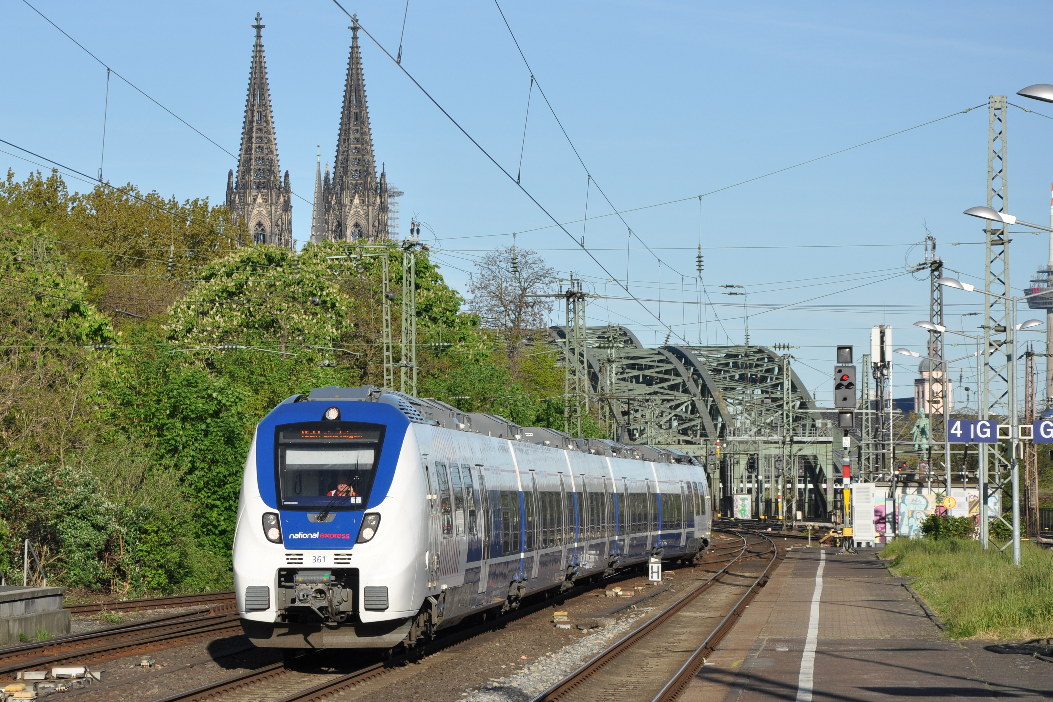 National Express Trainset 361